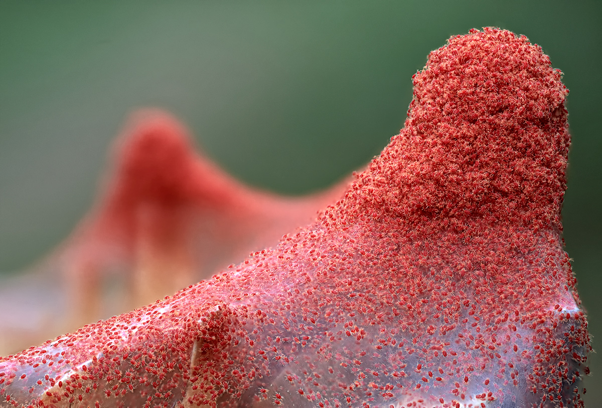 Red spider mites (Tetranychus urticae)